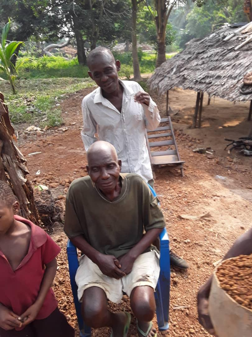 This man is one of the wise villagers of Mooto seating near his relatives.